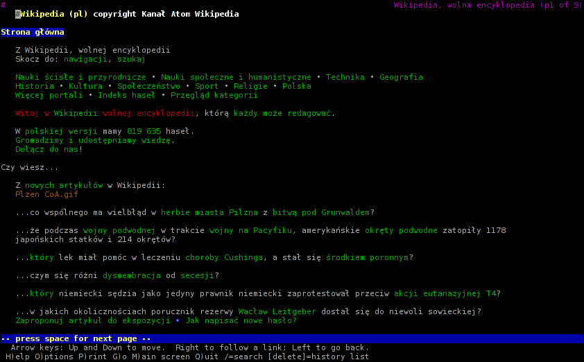 Screenshot of Lynx web browser, version 2.8.8.